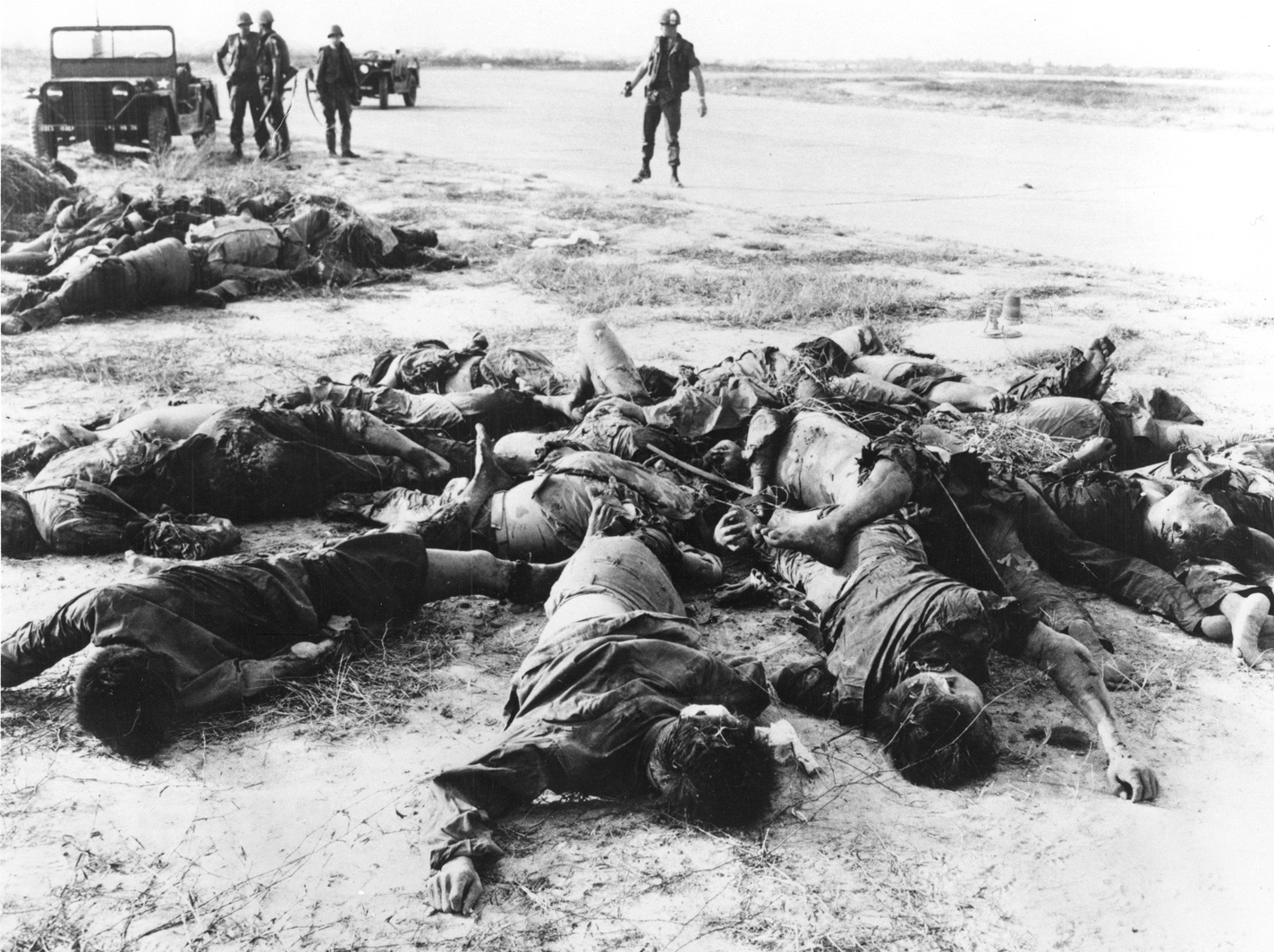 ASVG-S-1031-65/AGA68 RVN Saigon Viet Cong dead after an attack on the perimeter of Tan Son Nhut Air Base.